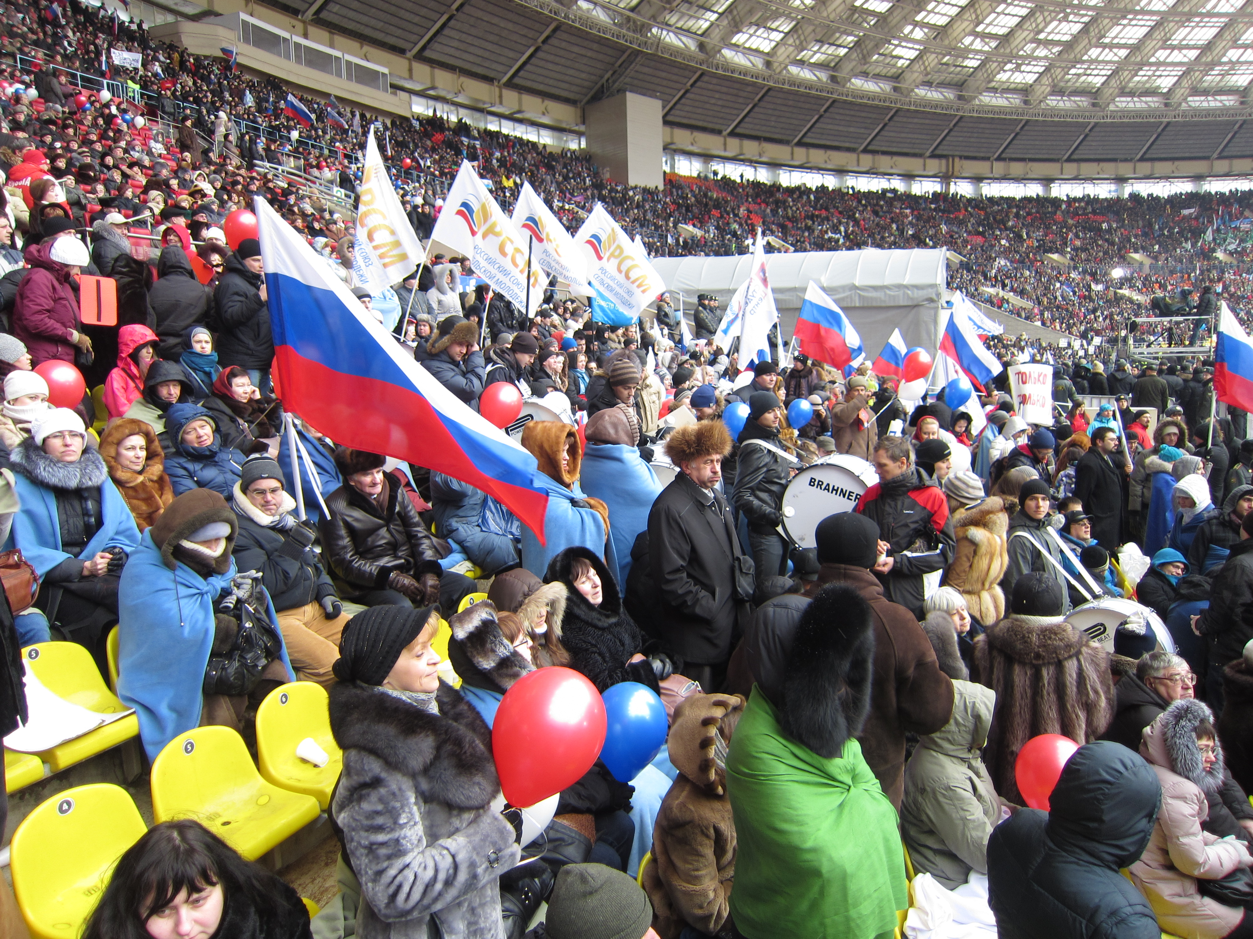 Pro-Putin concert at Luzhniki Stadium: public